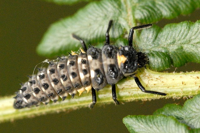 Anatis ocellata from Commanster, Belgian High Ardennes .